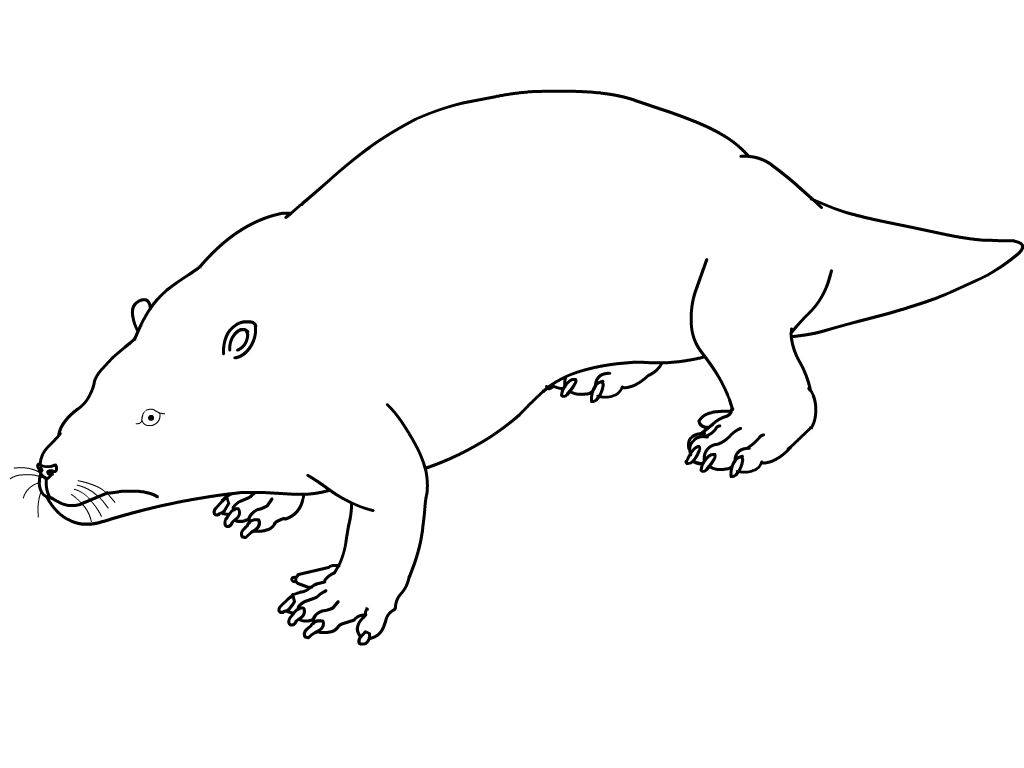 Description: Picture made by mateus zica in October 2005 Mateus Zica Wikipedia User Page is: This image is free to use in anywhere. If you gonna use it ,just send me a email telling me where its gonna be used.Thanks. Source: mateus zica